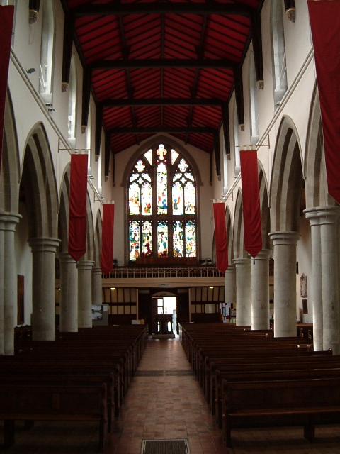 St. Peter's, Berkhamsted : Nave, near to Berkhamsted, Hertfordshire, Great Britain. This is the view down the nave of St. Peter's church in Berkhamsted, looking westwards. Due to the SP9907 : St. Peter's, Berkhamsted : Screen there is no window visible to the east so most of the light for nave comes from the western window seen here.